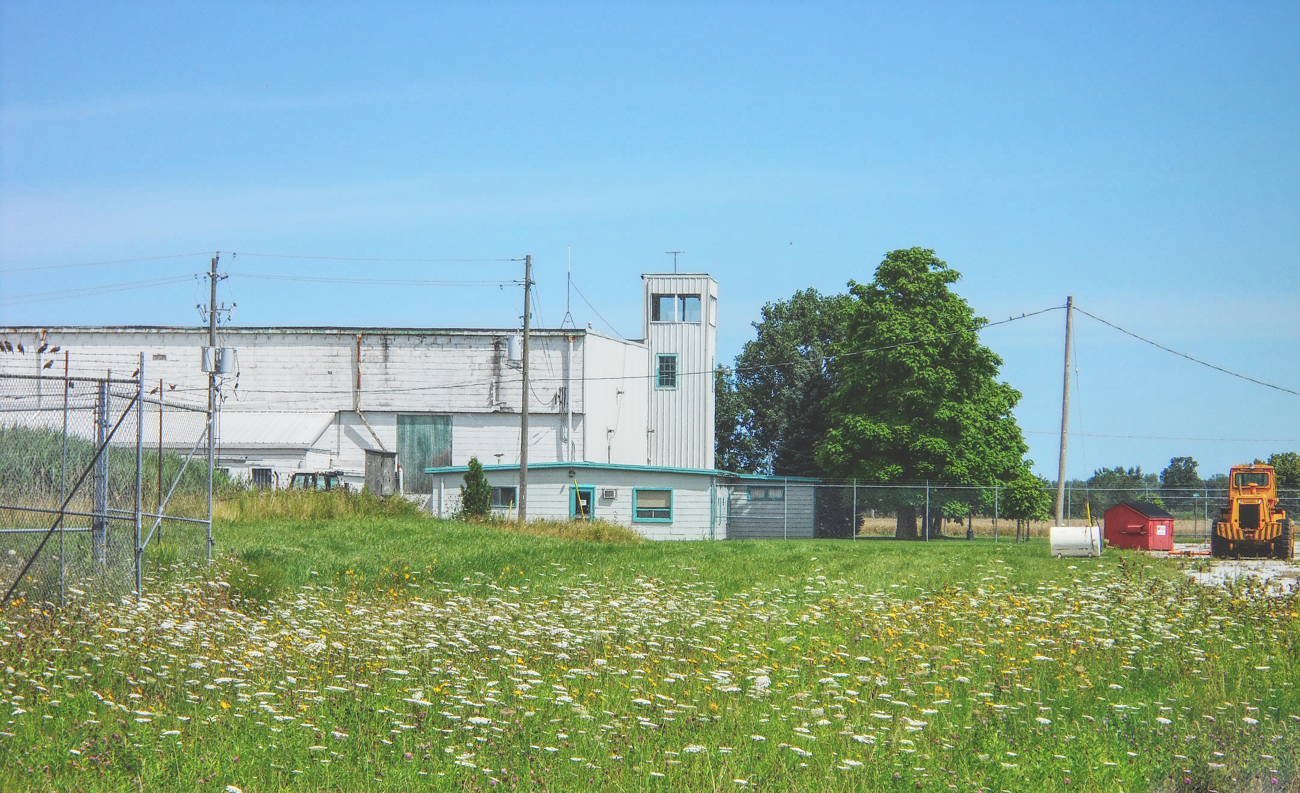 1942 WWII Hangar at Grand Bend August 2013